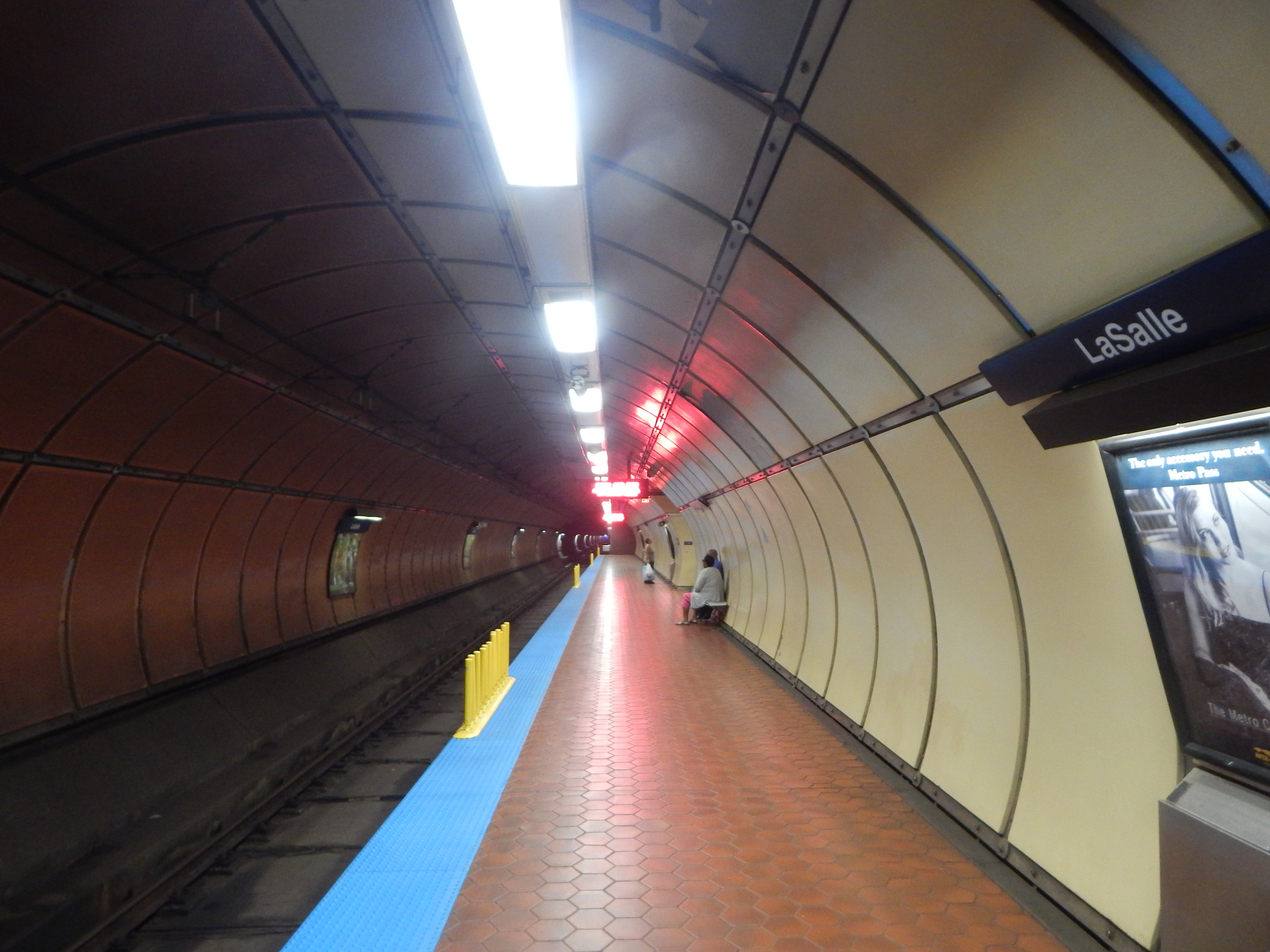 LaSalle station in Buffalo, New York.